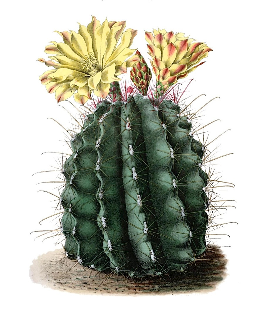 Ferocactus hamatacanthus ssp. hamatacanthus